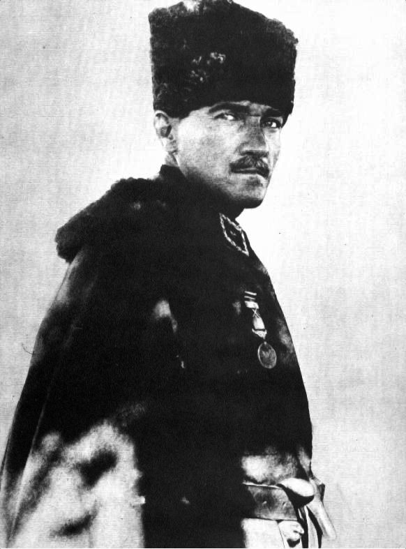 Mustafa Kemal Atatürk, 5 August 1921, as the Supreme Military CommanderTürkçe: Mustafa Kemal Atatürk, 5 Ağustos 1921, TBMM Orduları Başkomutanı